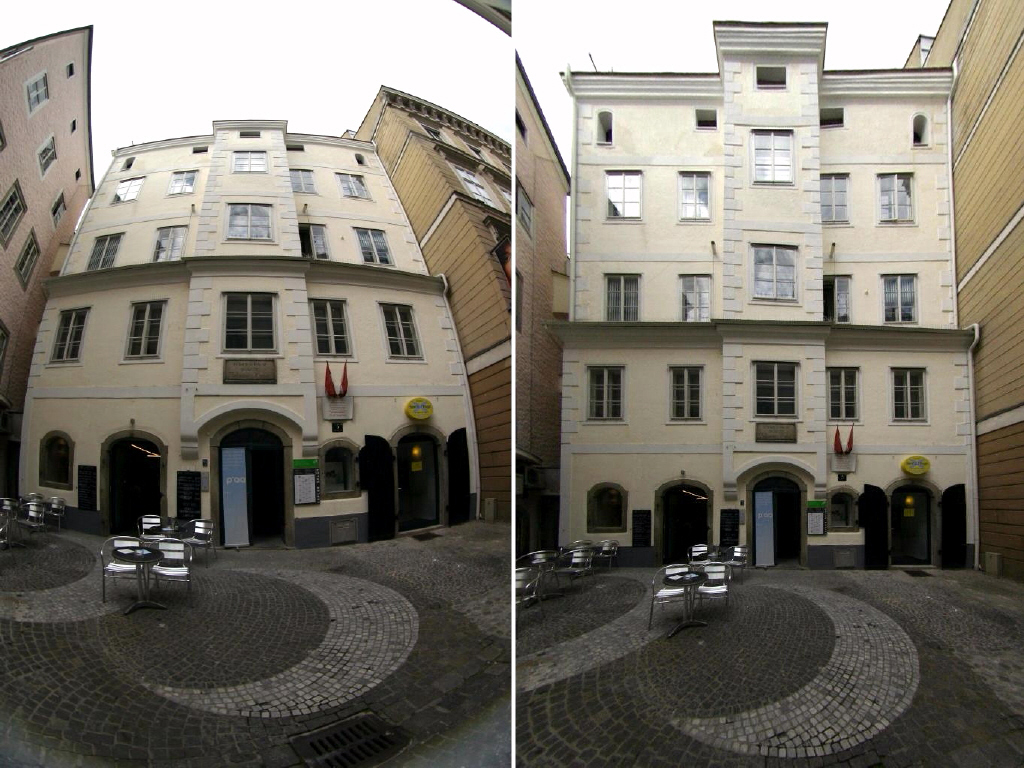 Left: Image of Kepler's House in Linz, Austria, taken with 8mm Peleng fisheye lens on a Canon EOS 300D (ASP-C size detector, cropped rectangle), showing typical distortions of a fisheye lens. Right: The same image, remapped to rectilinear projection using the software RectFish.